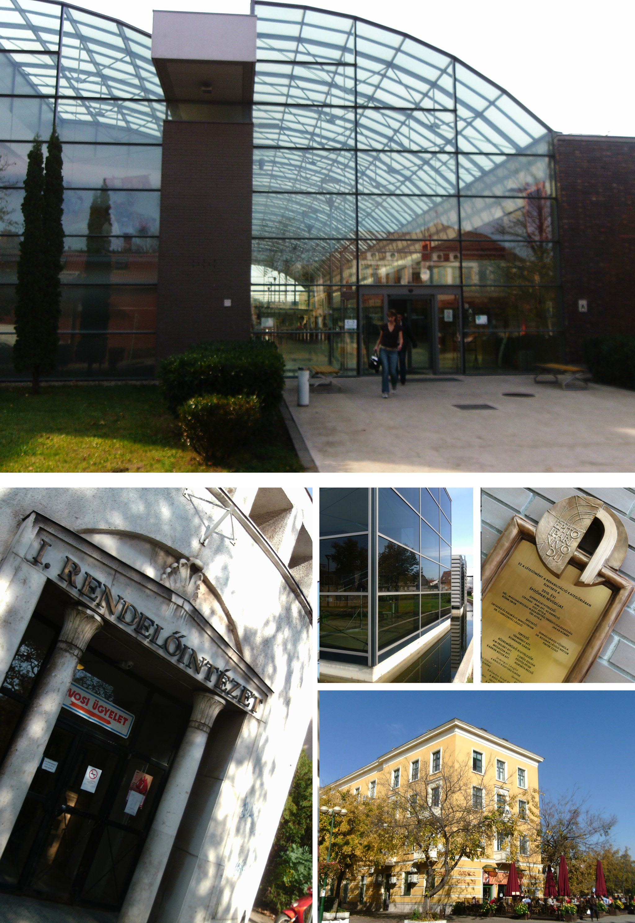 Dunaujvaros, Hungary